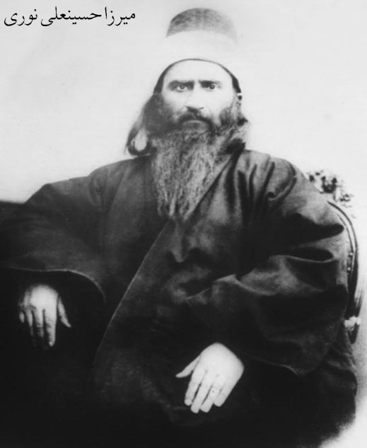 Photograph of Baha'u'llah scanned from William Miller's "The Baha'i Faith: Its history and teachings." page 83. (Better quality scan than the other two available on the wiki. All three images have the same paper source.)Bahá'u'lláh in 1868. (The inscription lists his Persian name: Mírzá Ḥusayn-`Alí Núrí)